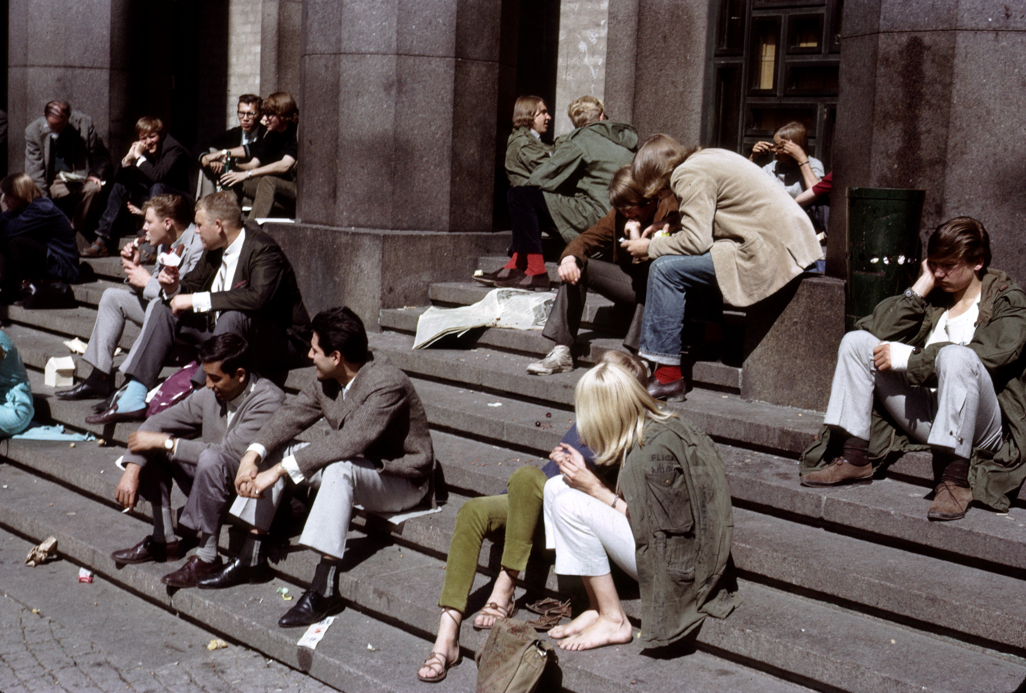 1960s people sitting on the steps of Stockholm Concert Hall